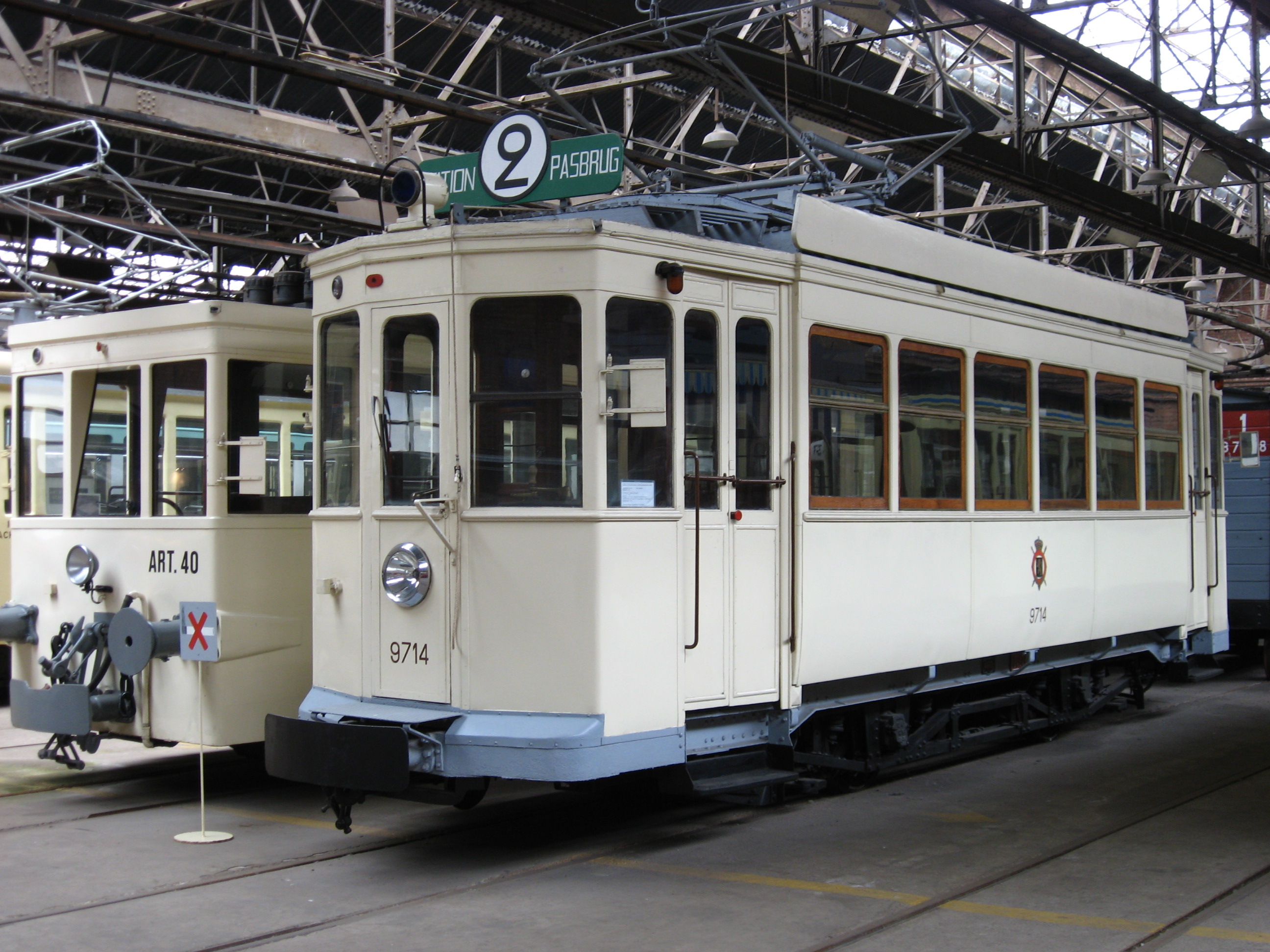 Local SNCV citytram for the city Mechelen. (line 2)